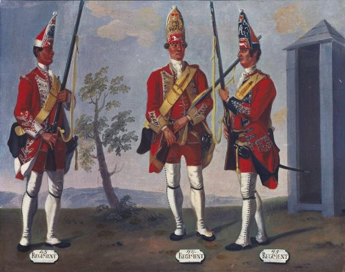 Grenadiers of the (from left) 45th, 44th and 43rd regiments, 1751